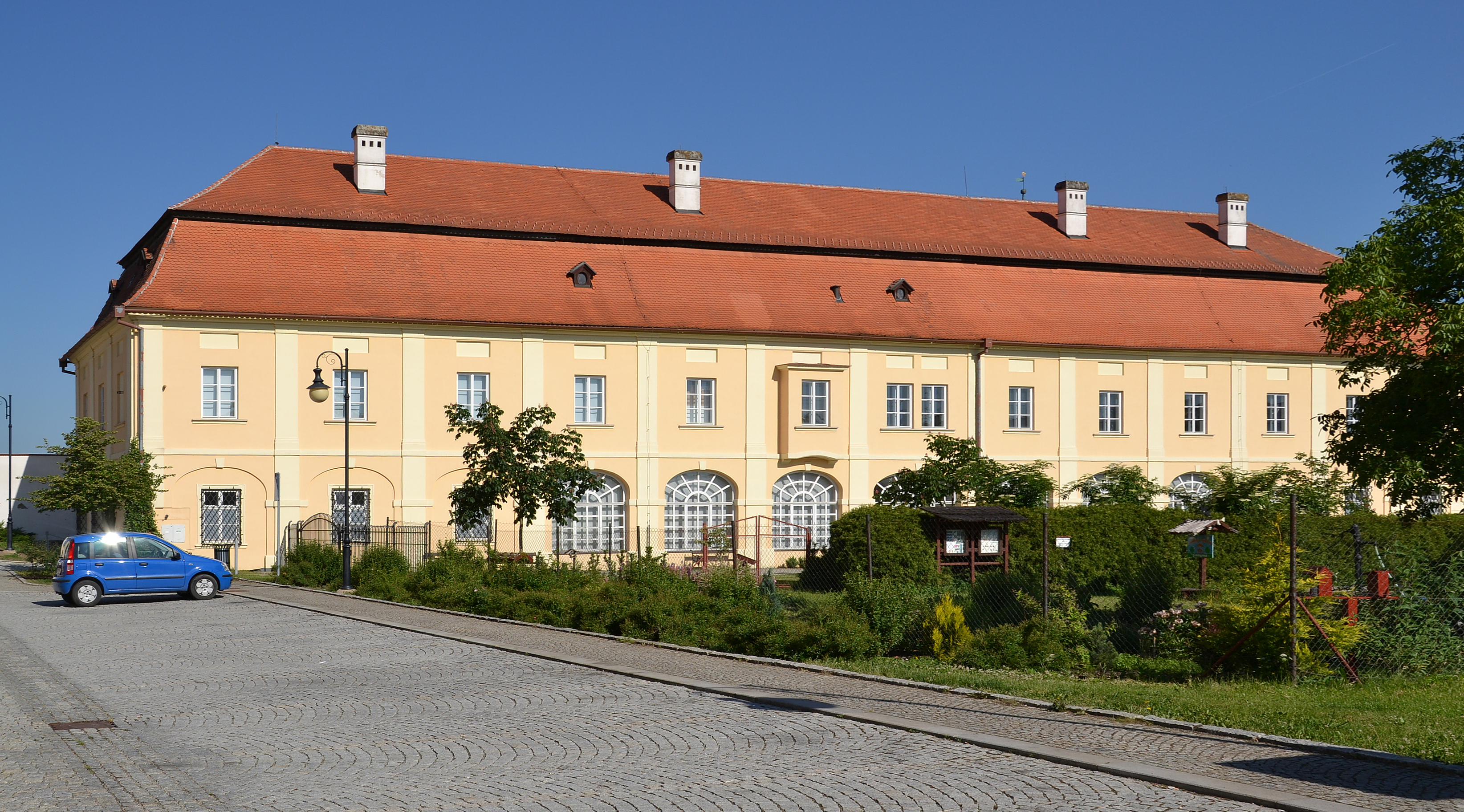 Boskovice (Boskowitz), Moravia - Residenz palace